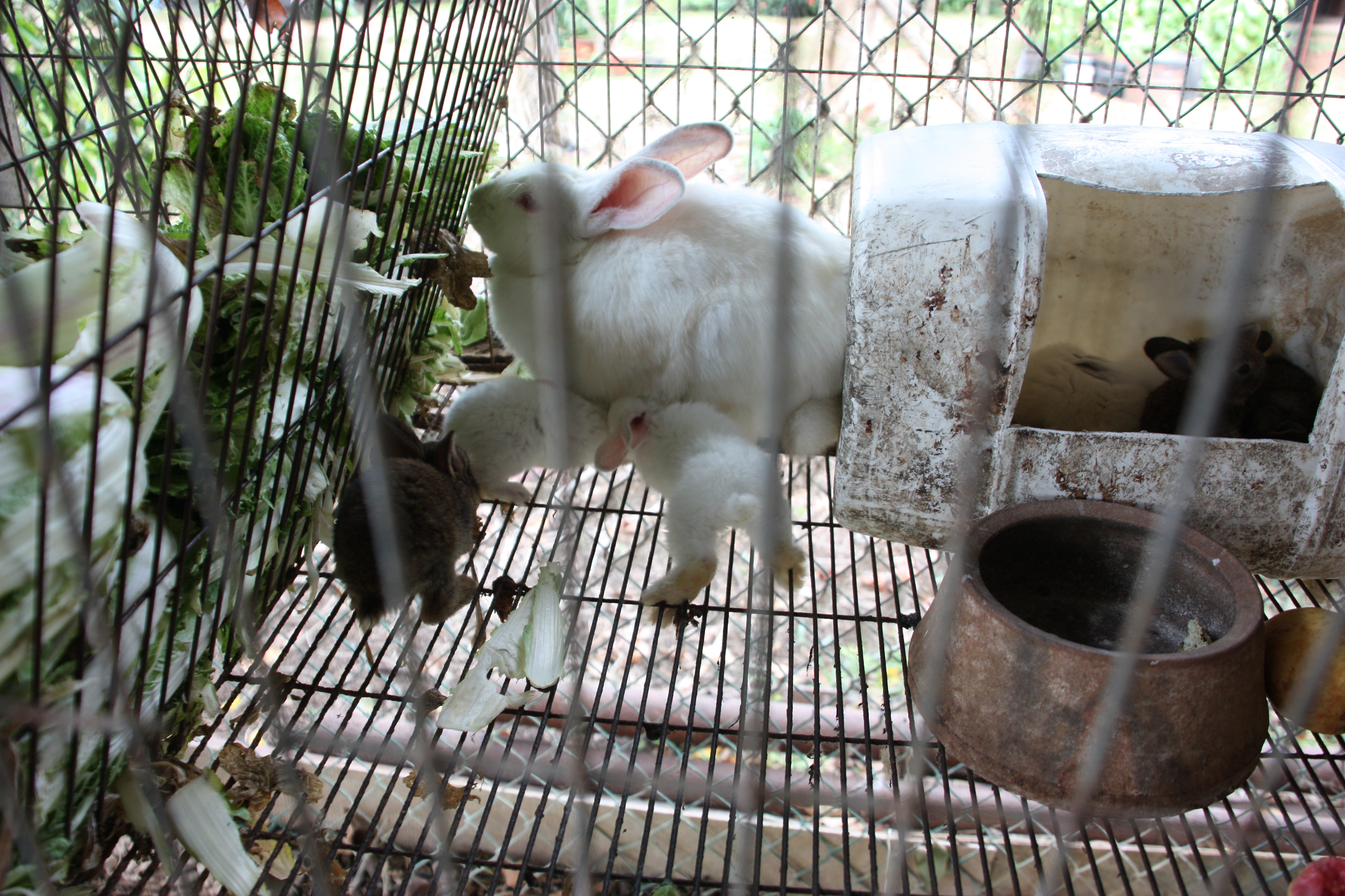 Suckling young rabbits at a small farm in Cuba.